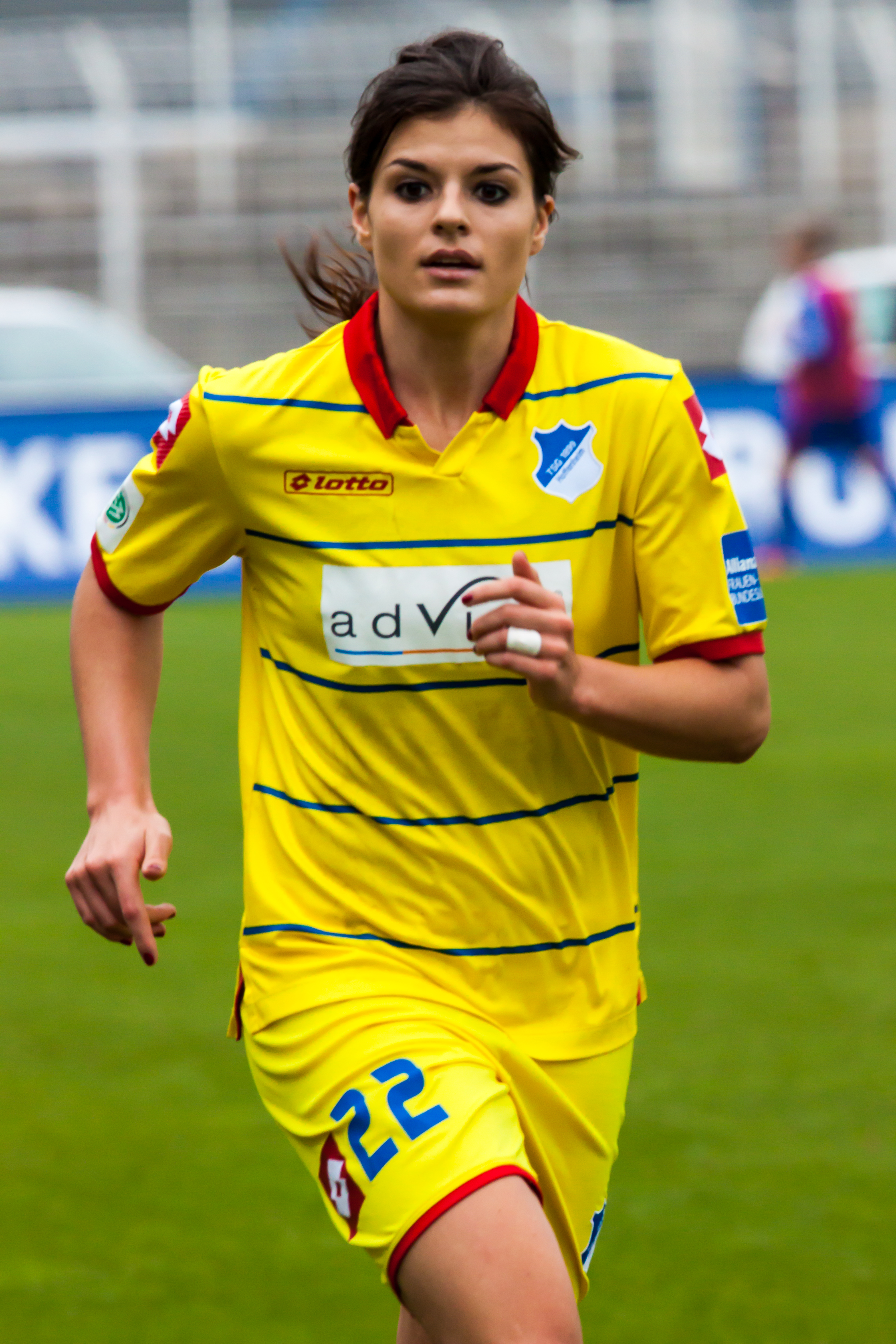 German Women Bundesliga soccer game: FF USV Jena vs. TSG 1899 Hoffenheim, 2014-10-11, at Ernst-Abbe-Sportfeld Jena.